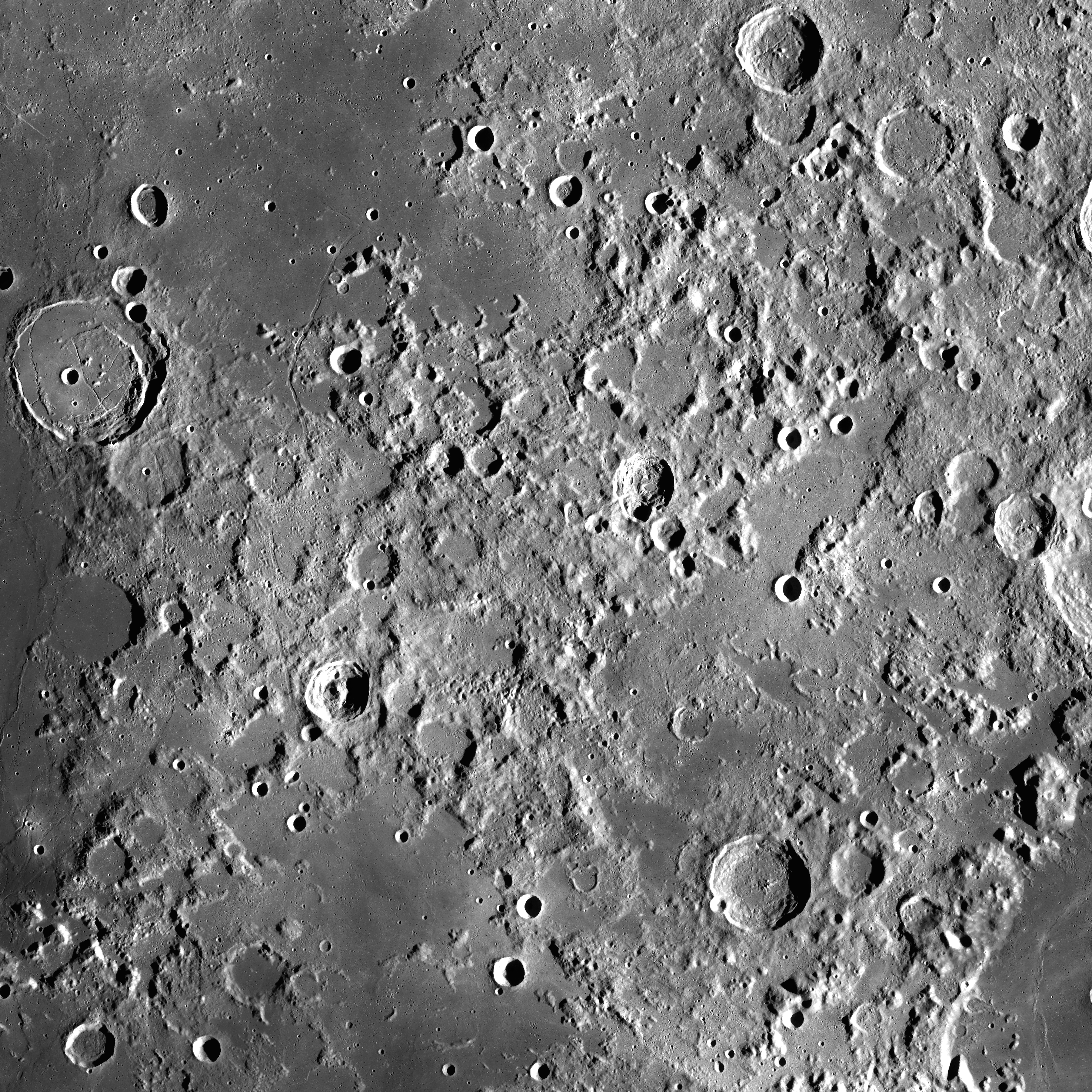 Montes Taurus on the Moon, to the east from Mare Serenitatis. Mosaic of photos by Lunar Reconnaissance Orbiter, made with Wide Angle Camera. Size of the image is 700×700 km, north is up. The image has the same span and resolution as a topographic map Montes Taurus (GLD100).jpg.